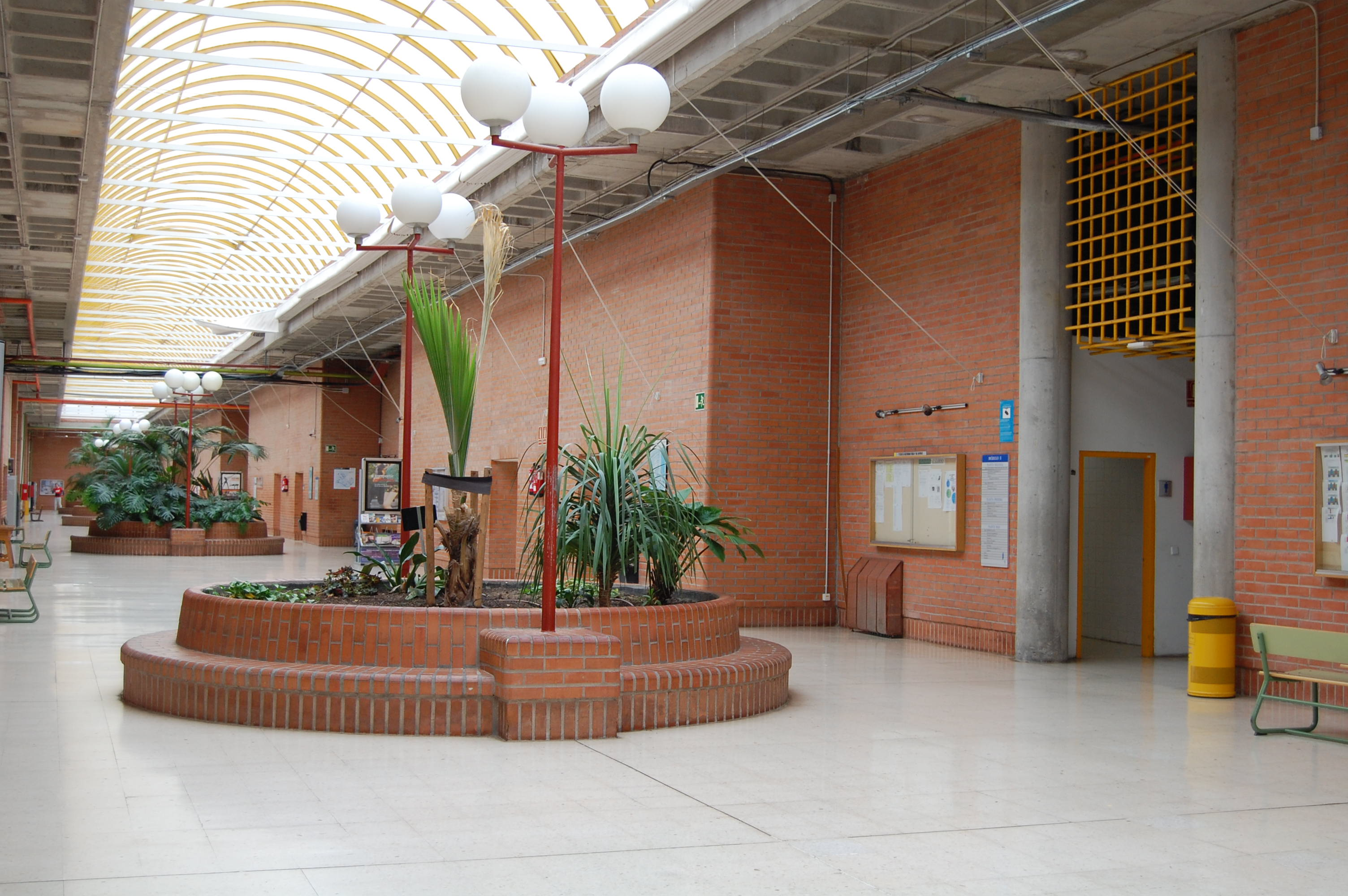 Medical School of the University of Alcalá, in Alcalá de Henares (Community of Madrid - Spain).